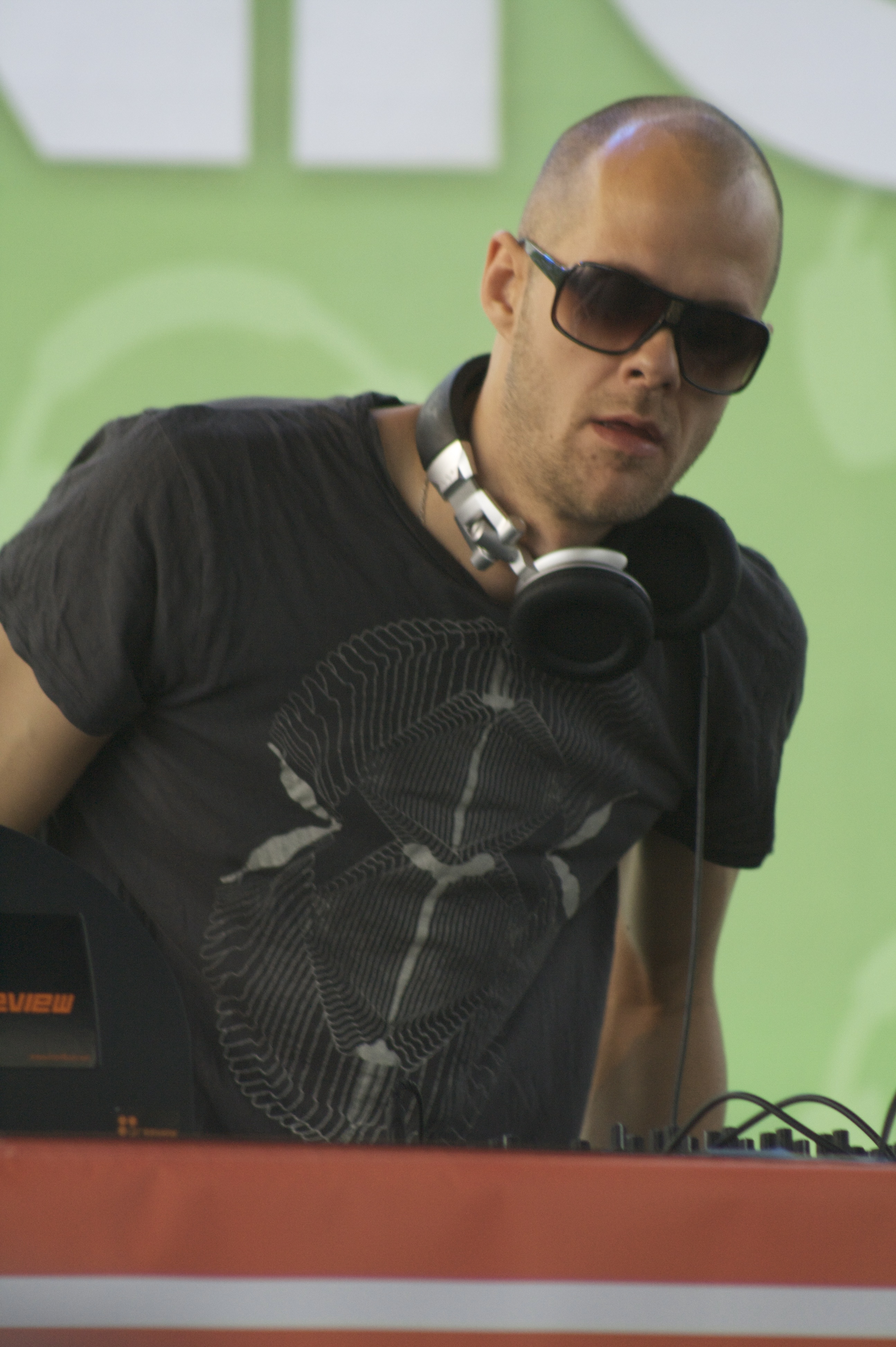 Adam Beyer at DEMF 2009